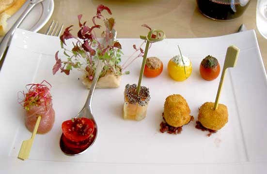 Restaurant SENSING